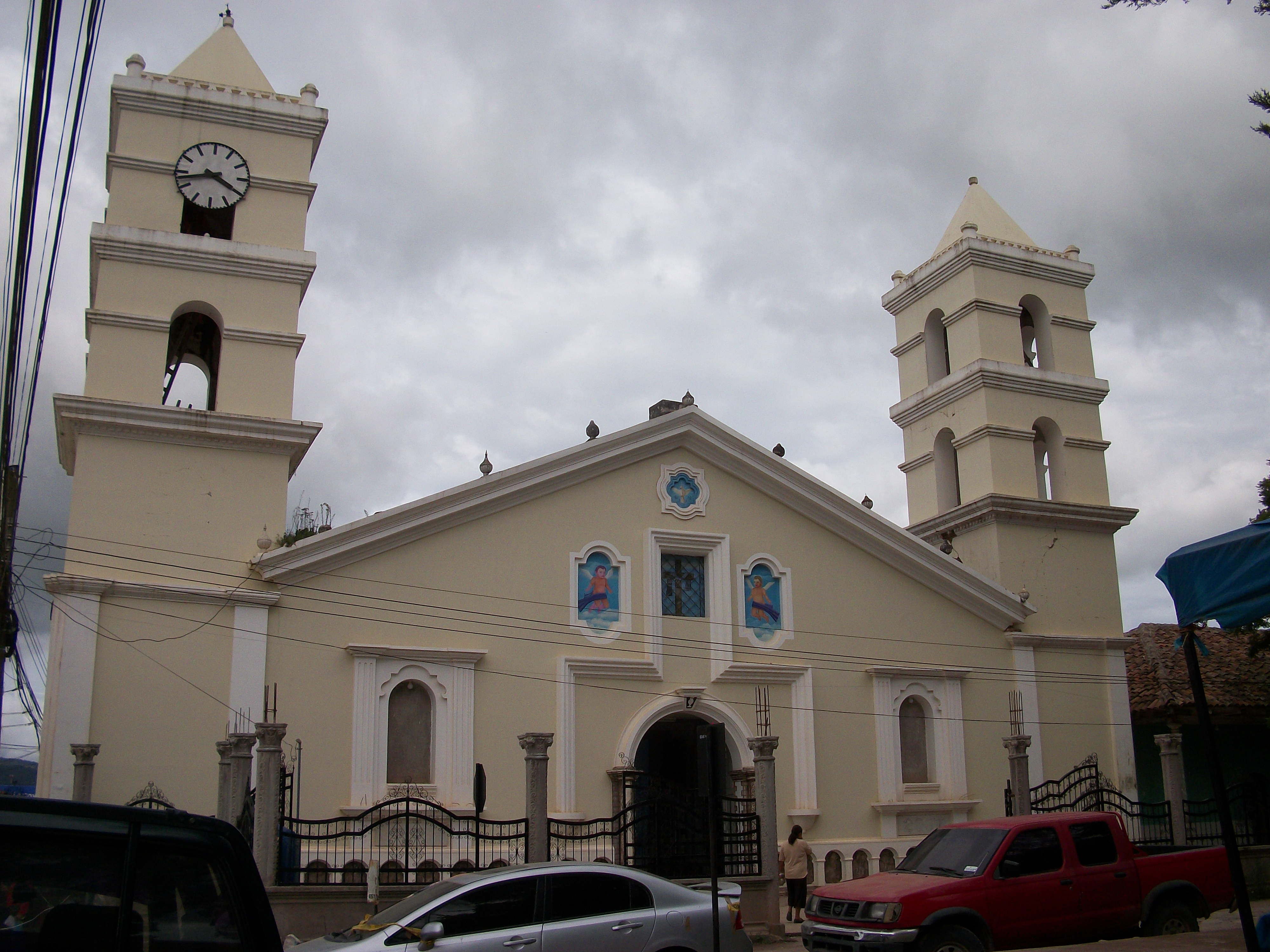 The main Catholic Church in the Central Park of La Esperanza, Honduras